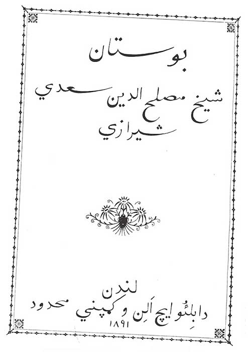 Book cover of Moslehuddin Sadi's Bostan dating 1891 AD